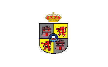 flag of Concepción, Paraguay